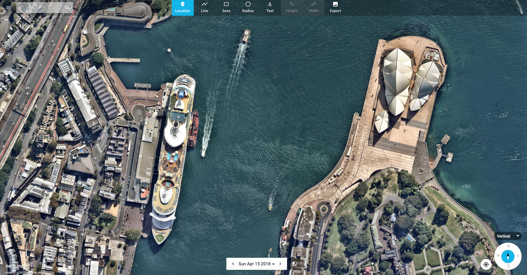 Nearmap MapBrowser Interface